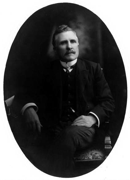 John Quick, Australian politician.